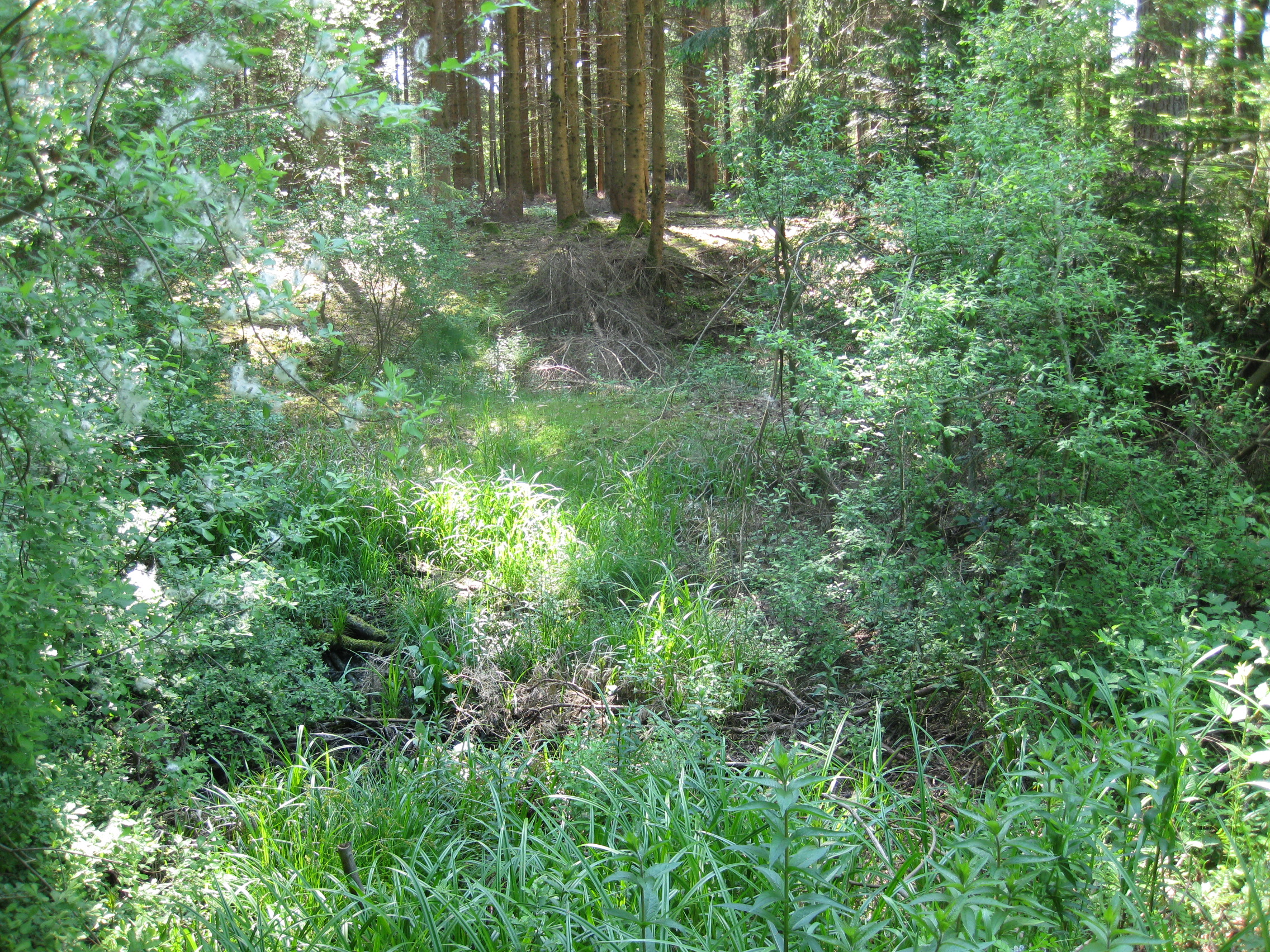 A former part, now fallen dry, of the Bodenloser See (Bottom-less Lake) between the villages of Dettensee and Empfingen.